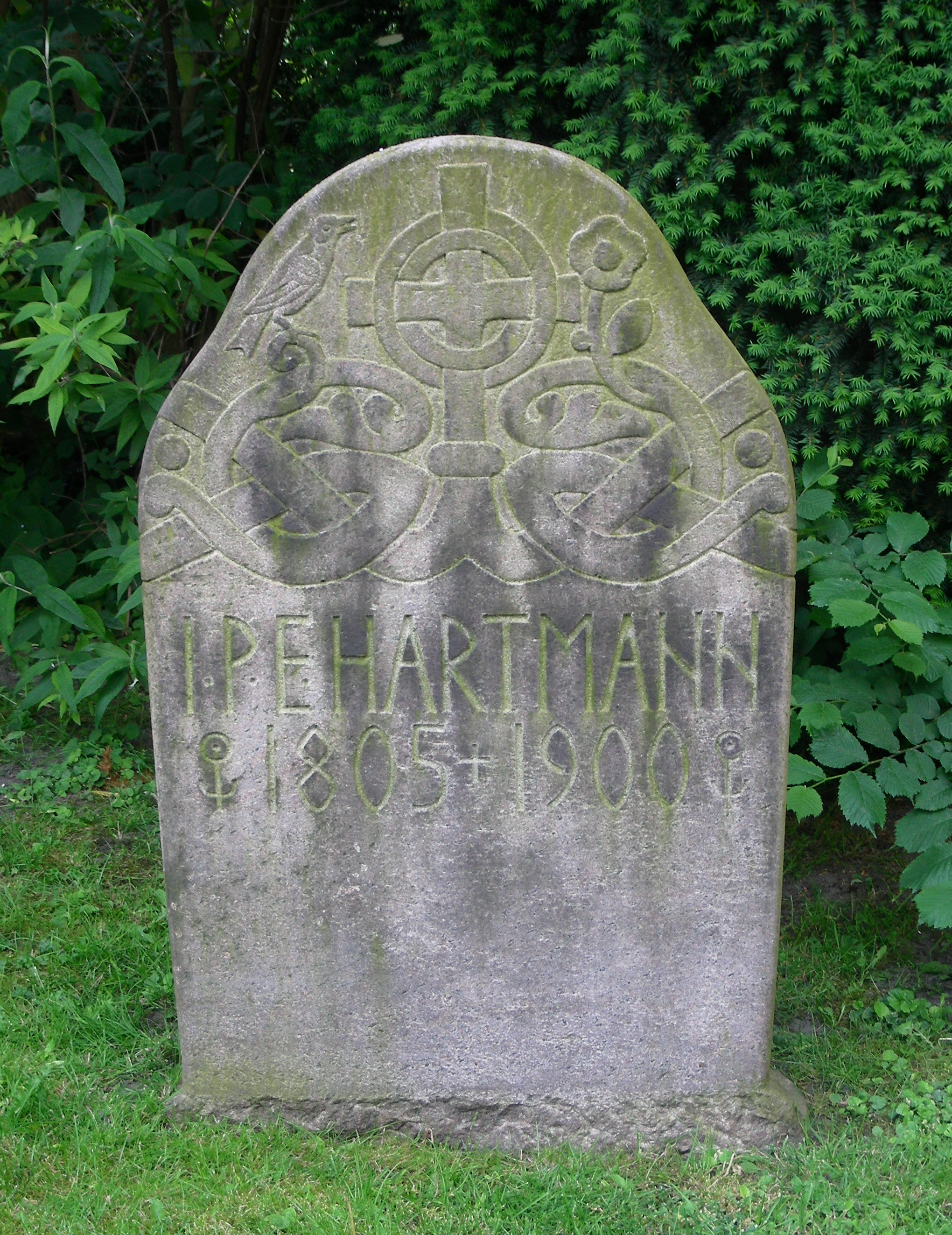 Garnisons Kirke (Garrison Church), Copenhagen, Denmark. Headstone for I.P.E.Hartmann.